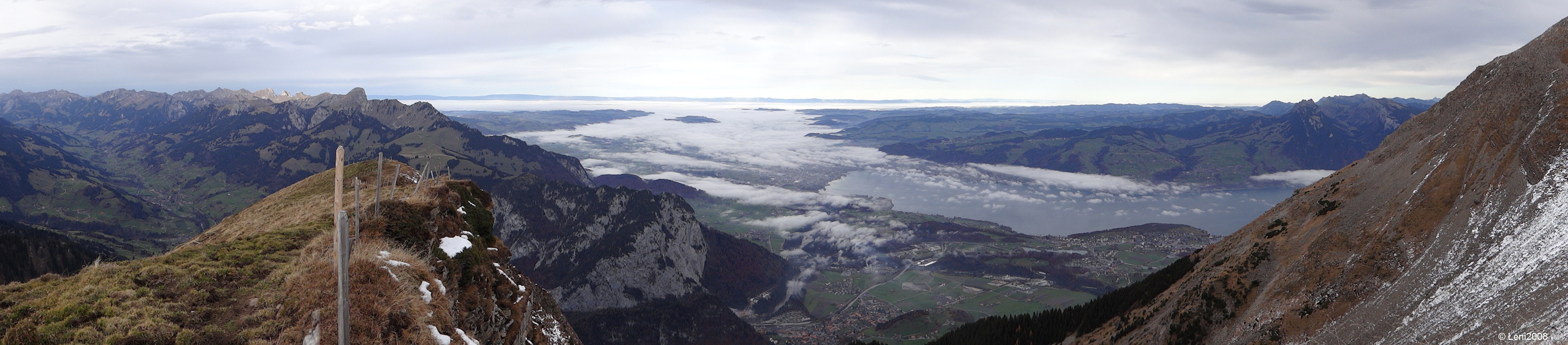 Niesen_View of Stockhorn 2'190 m, Lake Thun and Jura mountains